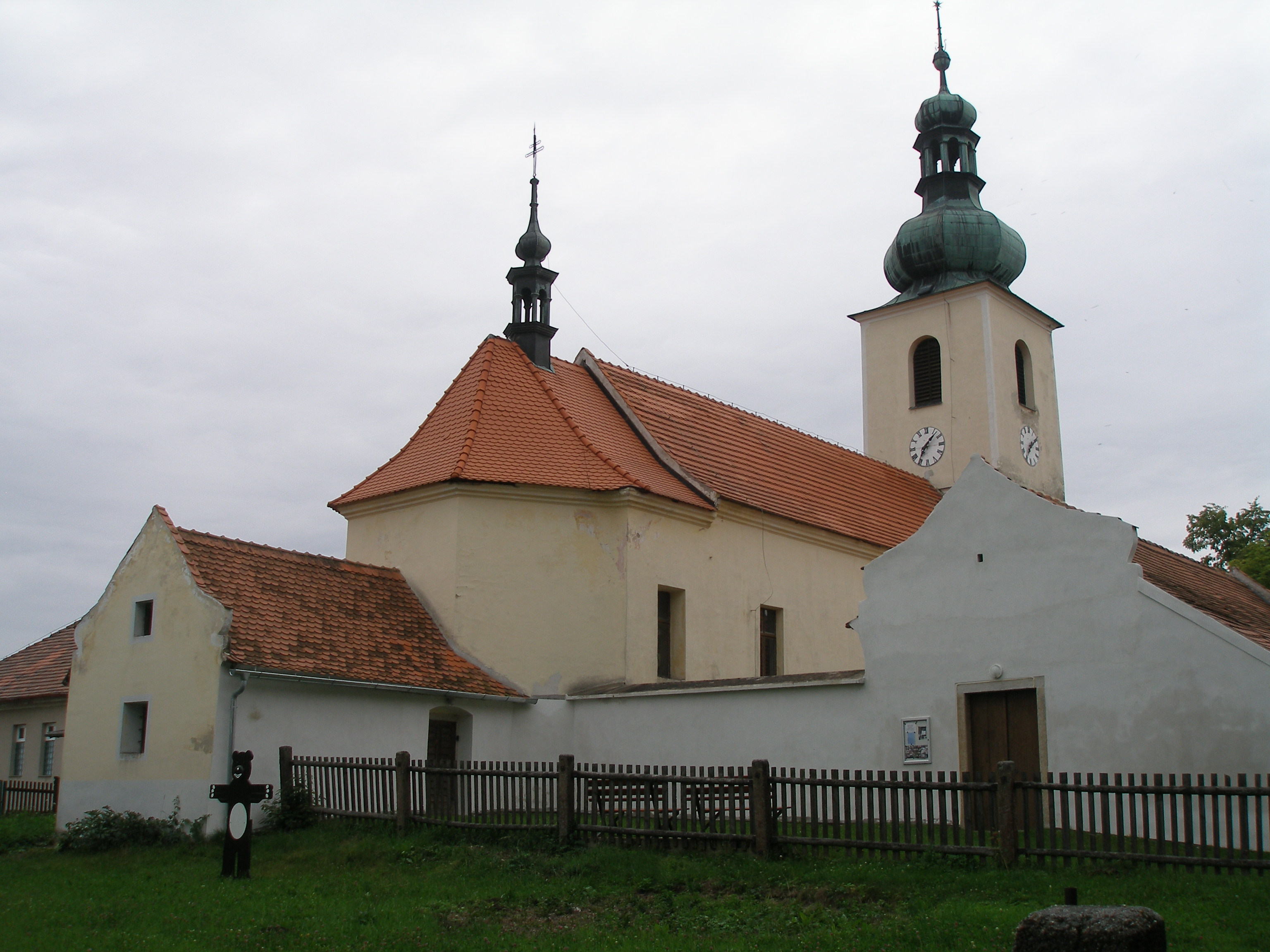 Church of St. John of Nepomuk in the village of Svatý Jan nad Malší, South Bohemian Region, Czech Republic, as seen from the northeast